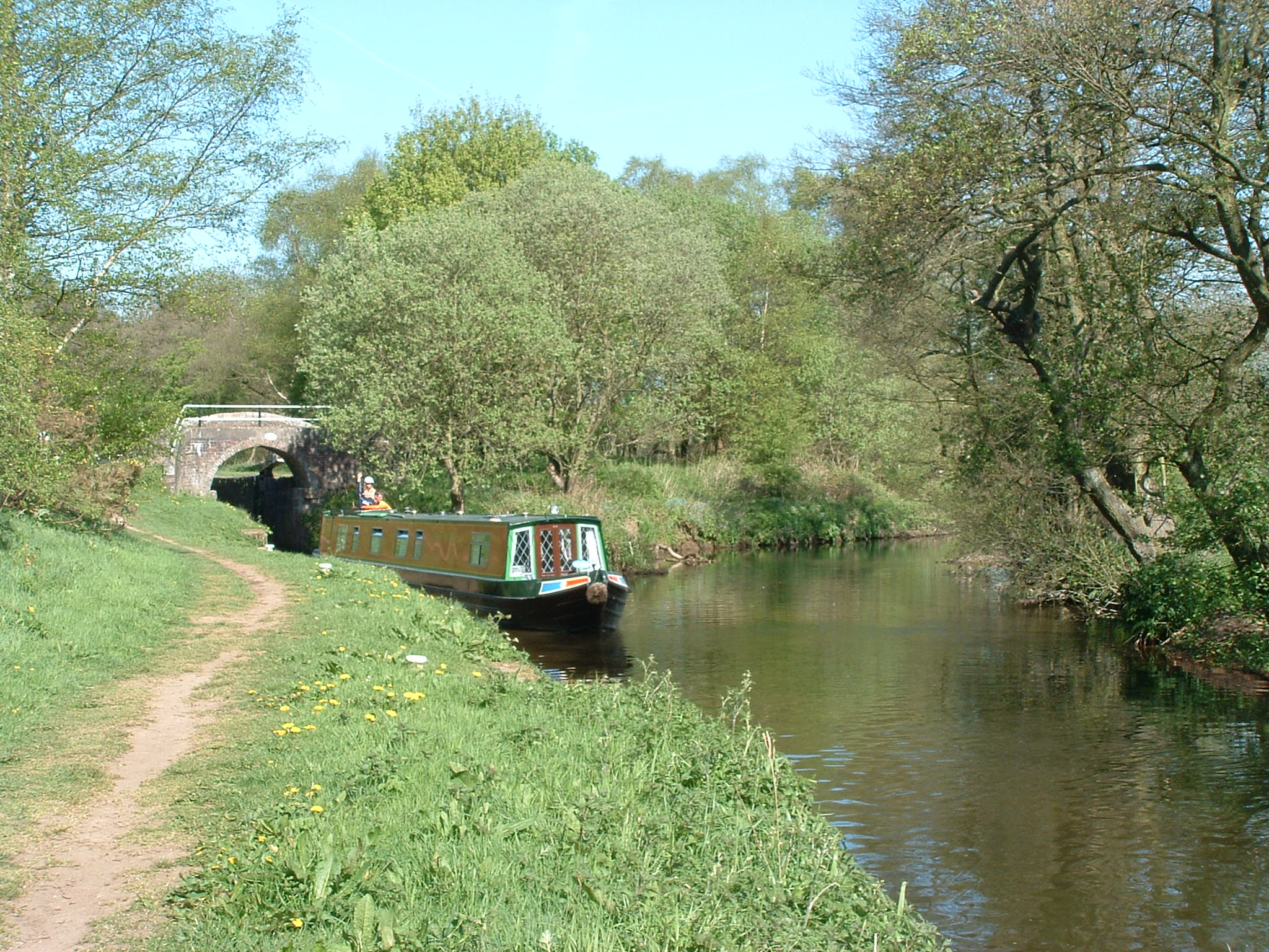 Uploaded by the Photographer, Akke Monasso